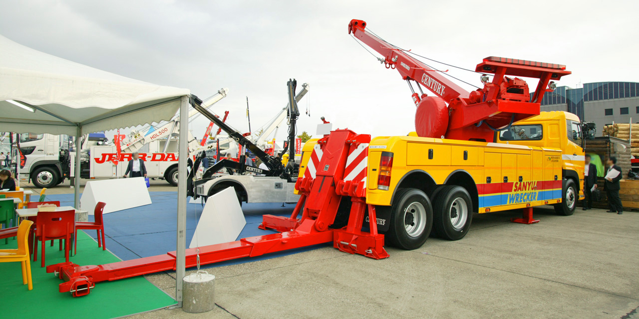 Towing equipment, Century 1040 S + SDU 3